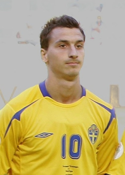 Ibrahimović.jpg with a soft background.